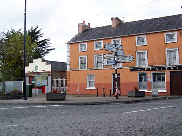 Cross roads, Glenamaddy Glenamaddy is a busy market town with several bars and shops.